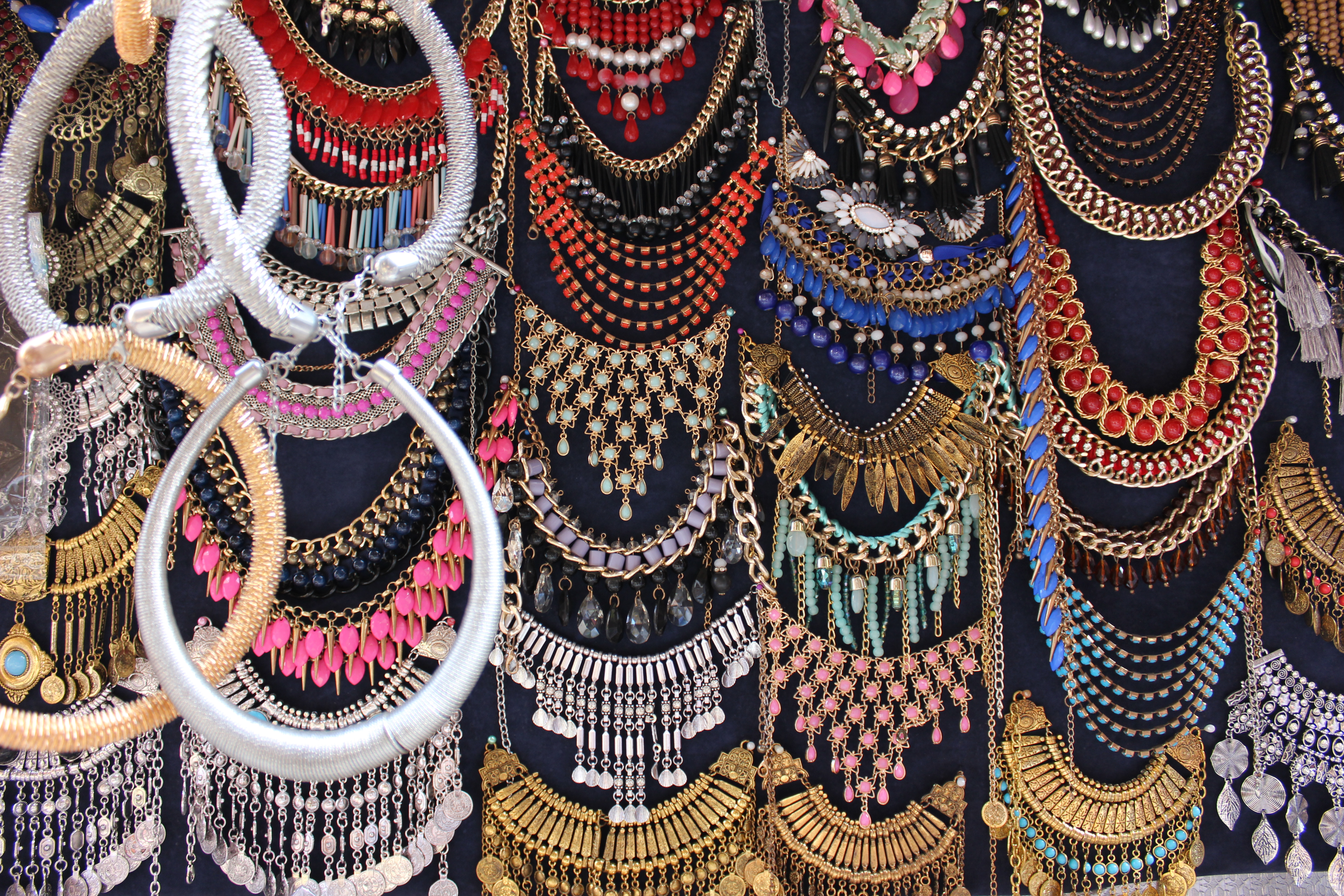 Necklaces and some fake jewelry on display at a street market in old Cairo. This is an image of Cultural Fashion or Adornment from مصر